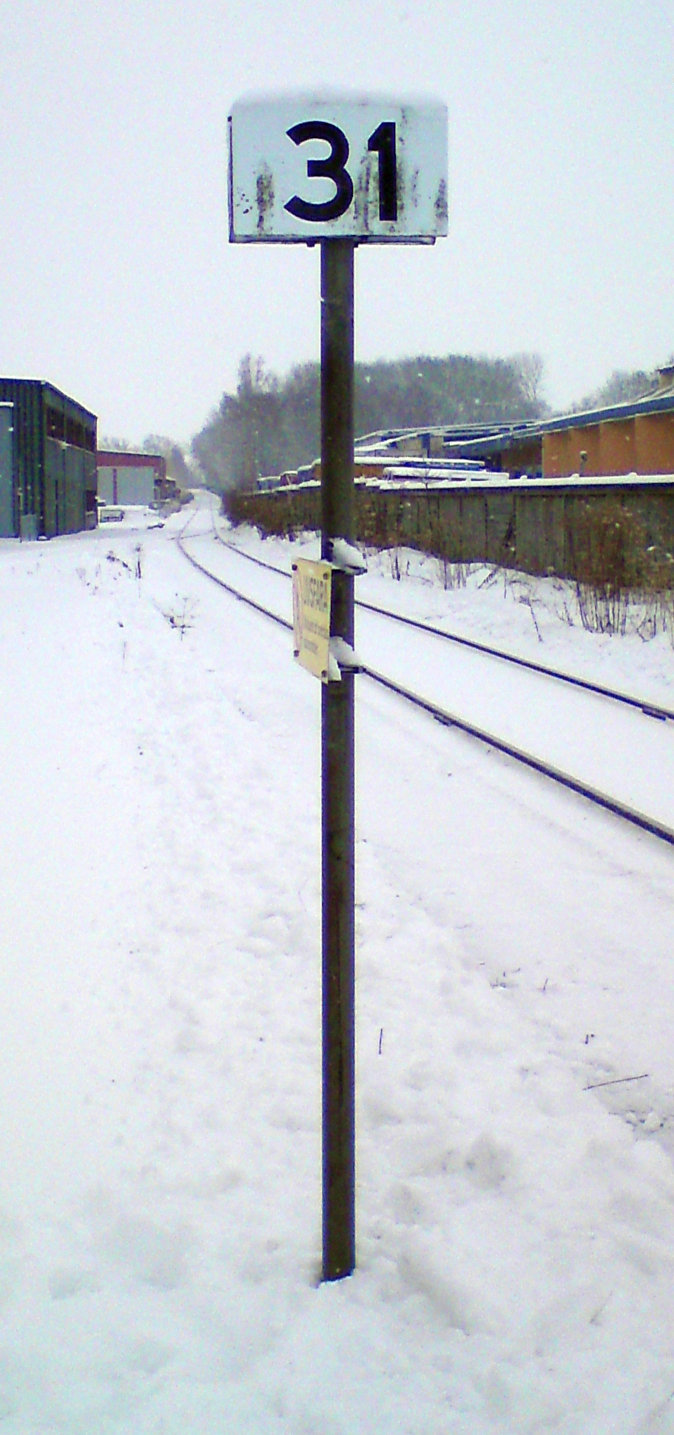 Kilometer sign for Swedish railways